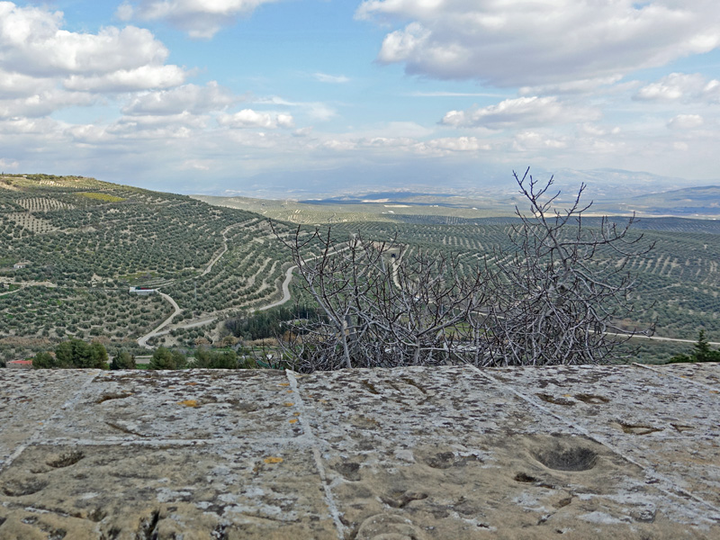 Olive trees in Úbeda, Spain